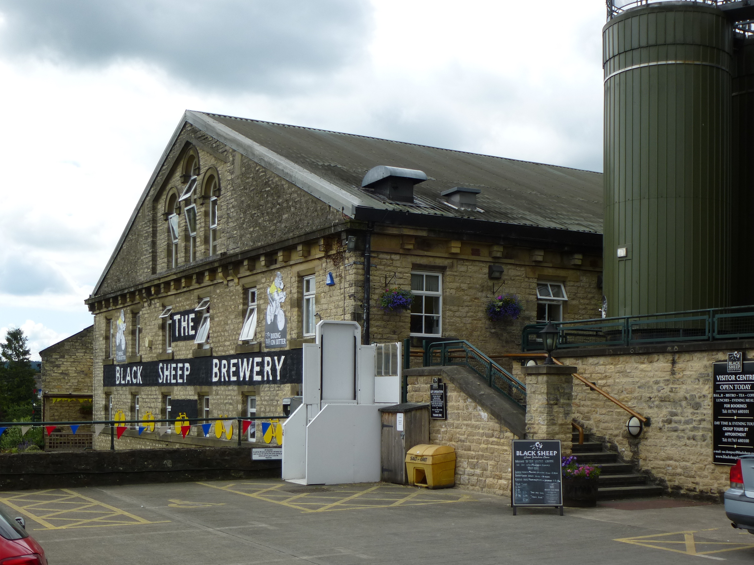 Black Sheep Brewery in Masham, Visitor Centre. Decorated for the Tour de France 2014 in Yorkshire.